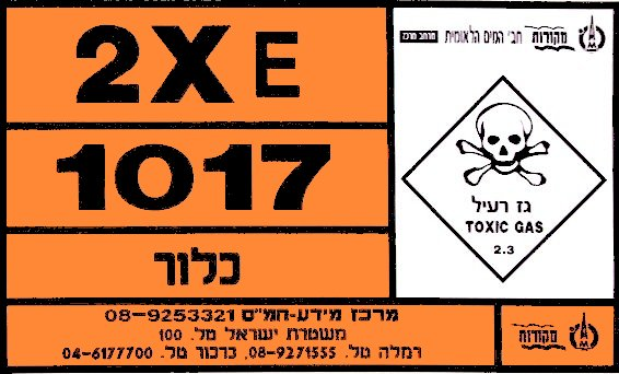 Israeli Dangerous Goods transportation warning sign for chlorine, UN No. 1017